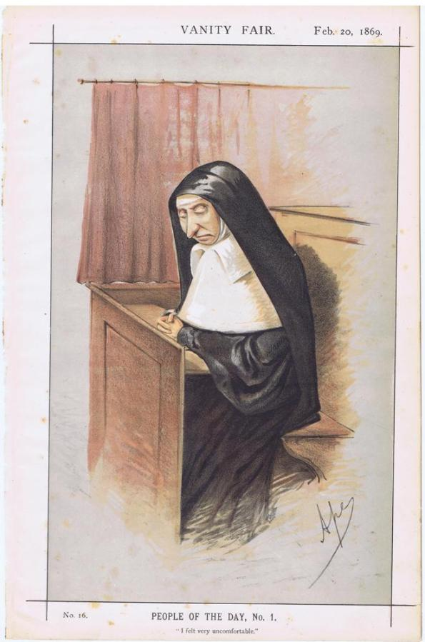 Mother Starr in 1869 during the Great Convent Case caricatured in Vanity Fair raised by Susan Saurin against her